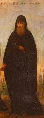 Saint Prokhor Lobodnyk of Kyiv Caves (died in 1107)